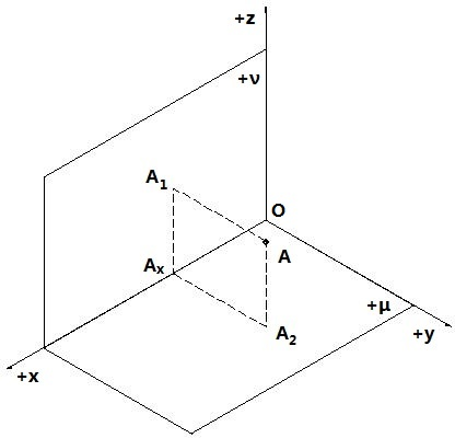 General view of Monge projections of a dot.